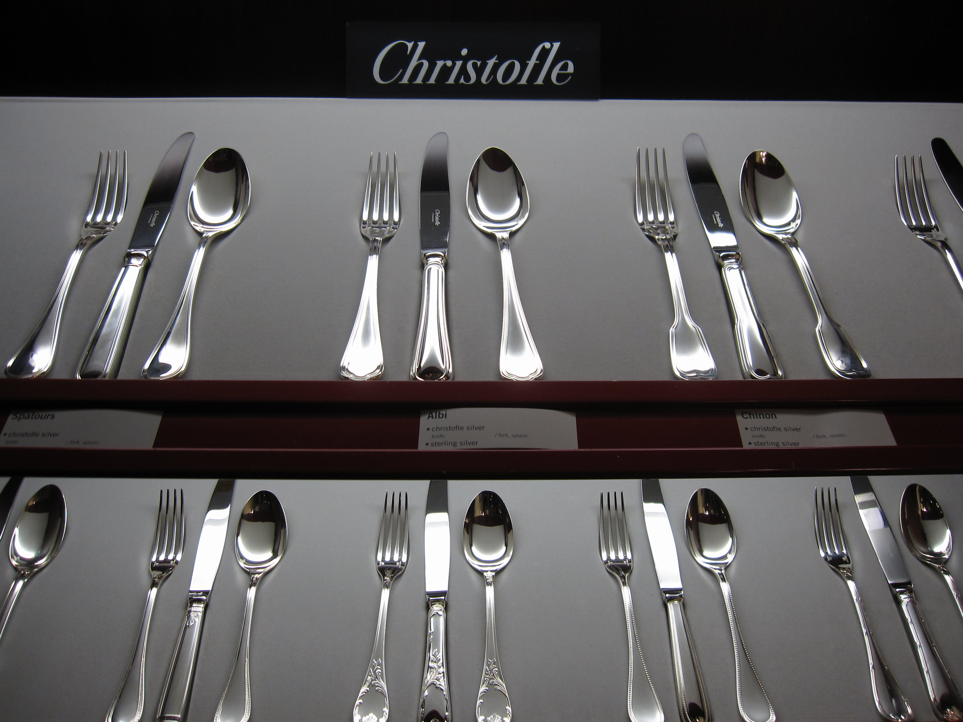 Christofle